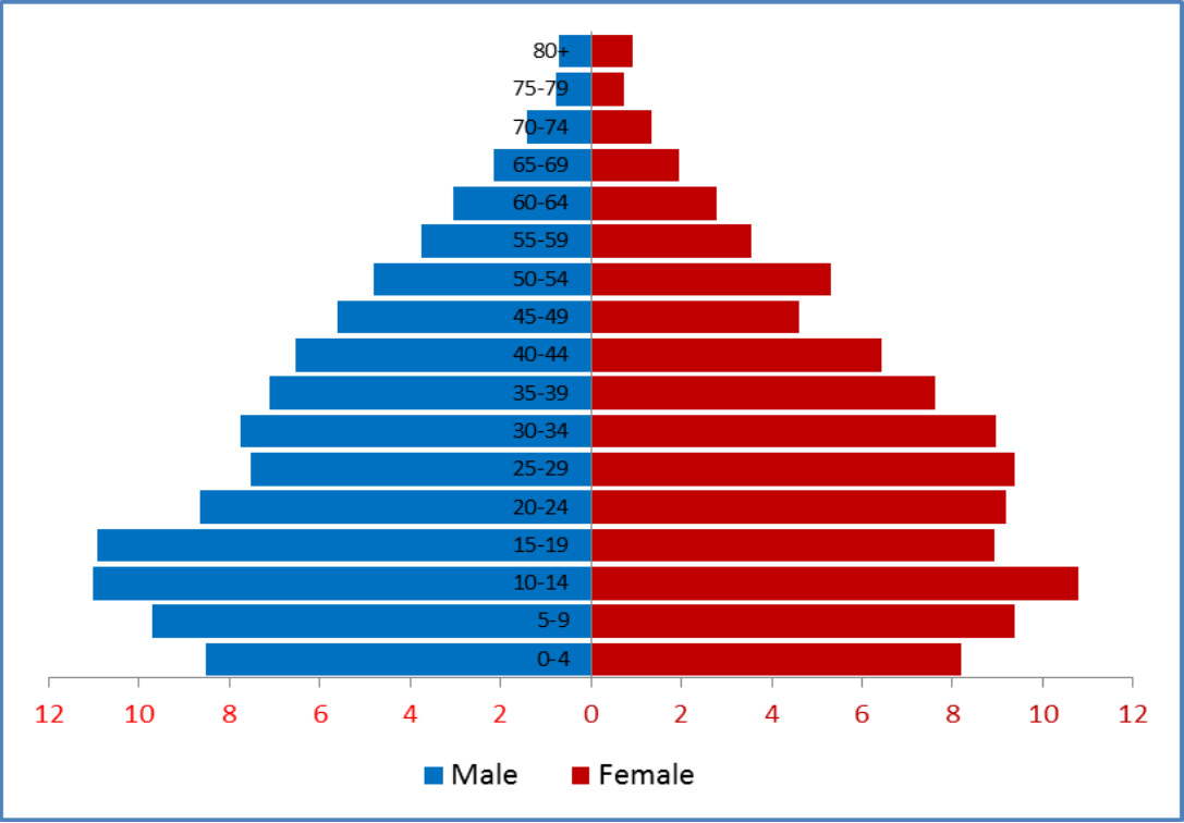 This is the population pyramid for Bangladesh. A population pyramid illustrates the age and sex structure of a country's population and may provide insights about political and social stability, as well as economic development. The population is distributed along the horizontal axis, with males shown on the left and females on the right.